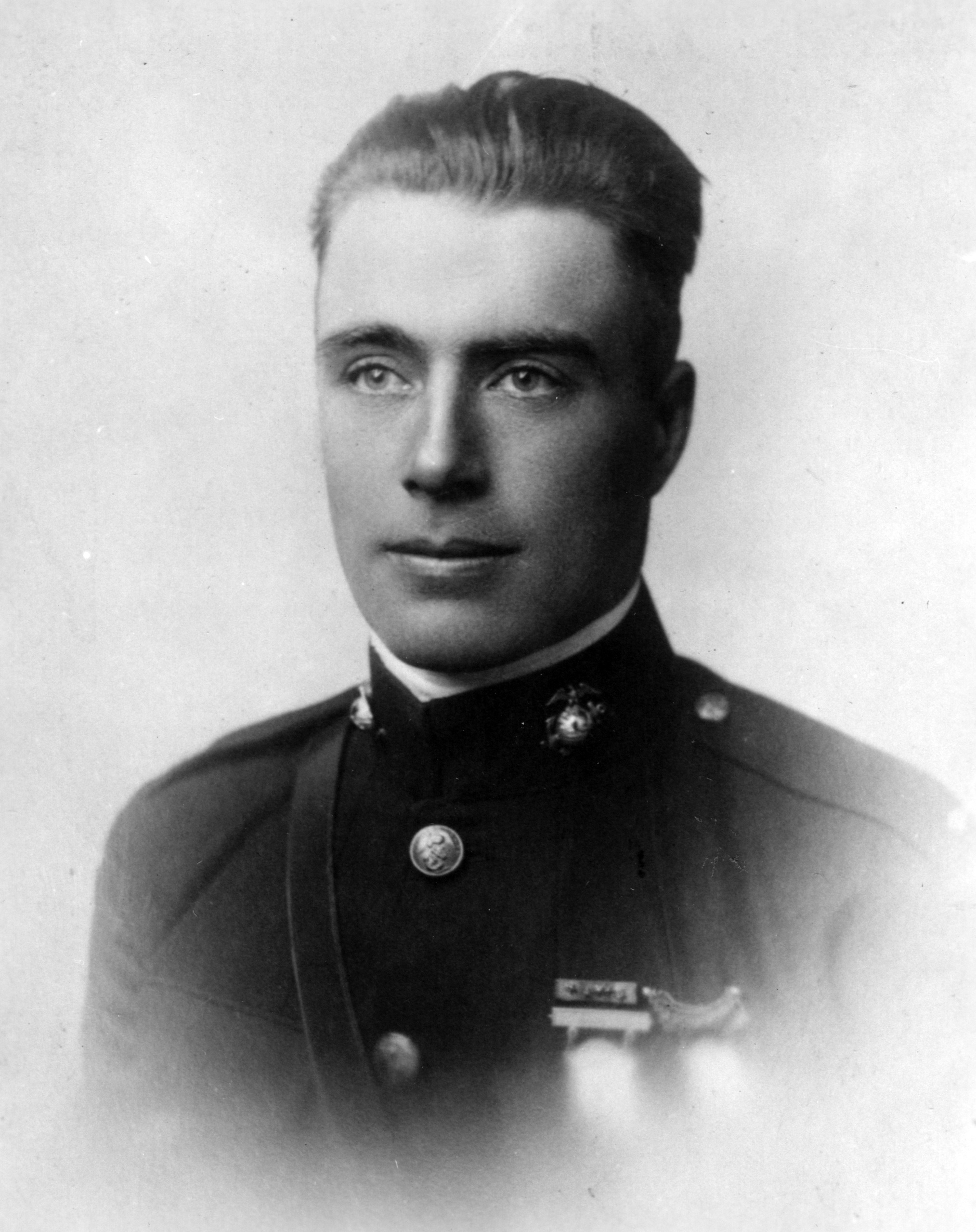 William John Whaling (February 26, 1894 – November 20, 1989) was a highly decorated Major general in the United States Marine Corps and an expert in jungle warfare during the Pacific War. He also competed as a sport shooter in the 1924 Summer Olympics, where he finished in 12th place in the 25 m rapid fire pistol competition. He began his Marine Corps career as an Enlisted Man and received field commission during World War I. Whaling remained in the Marine Corps and commanded battalion at Guadalcanal and regiment at Cape Gloucester and Okinawa, where he earned the Navy Cross for gallantry in action. During the Korean War, he served as Assistant Division Commander, 1st Marine Division and later as Commanding general, Marine Corps Recruit Depot San Diego.